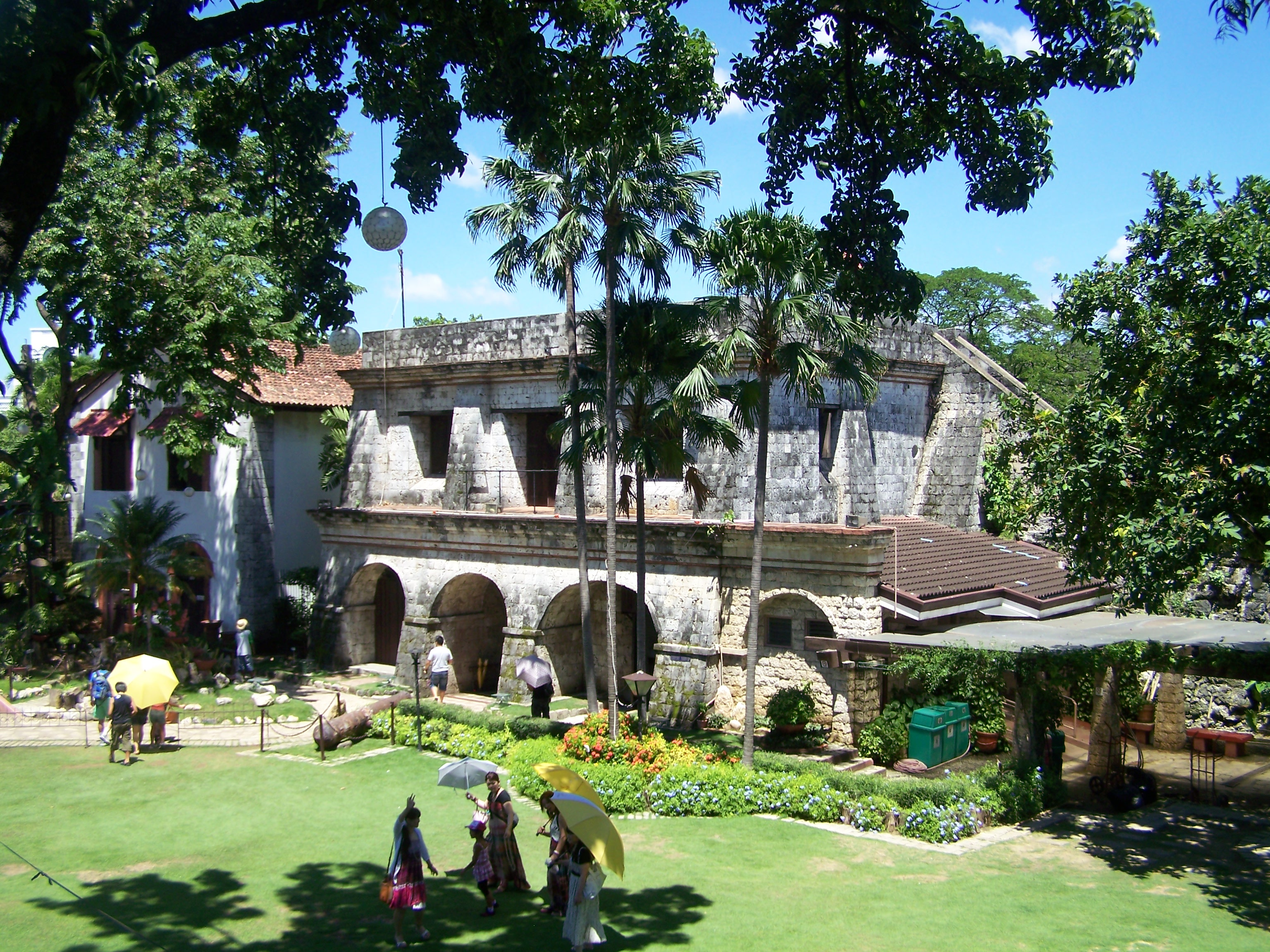 Inside Fort San Pedro (Cebu, Philippines) facing the main entrance.